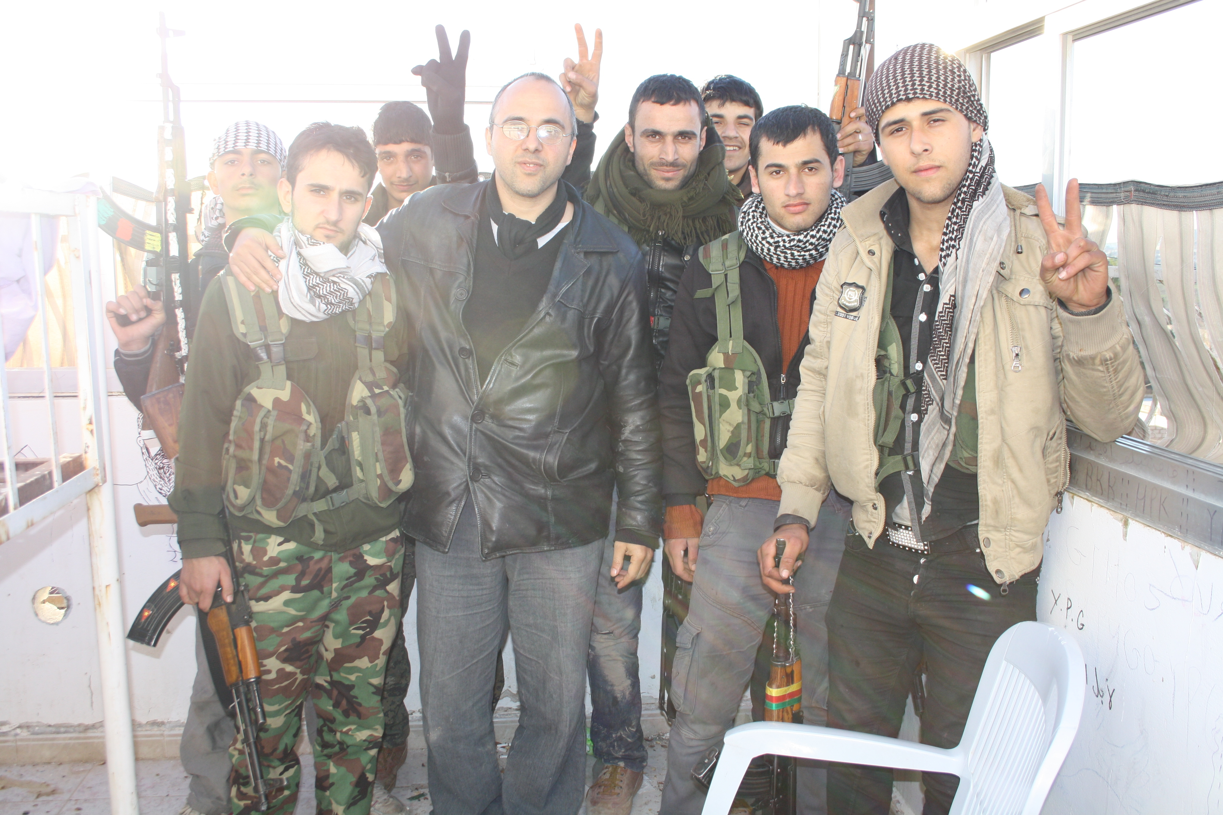 Jonathan Spyer in Ras al ain/Sere Kaniyeh, northern Syria, with YPG fighters.